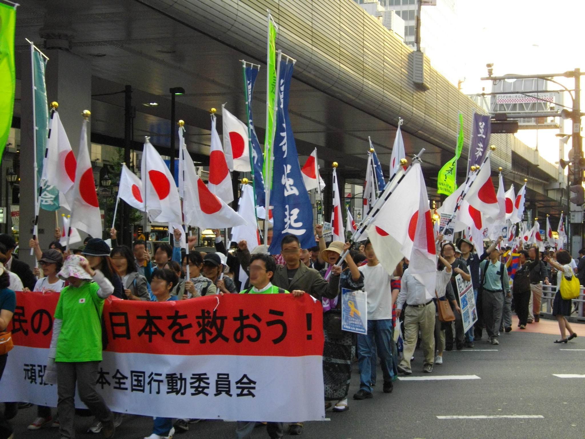 Anti-Chinese government rally on 16 October 2010 at Roppongi